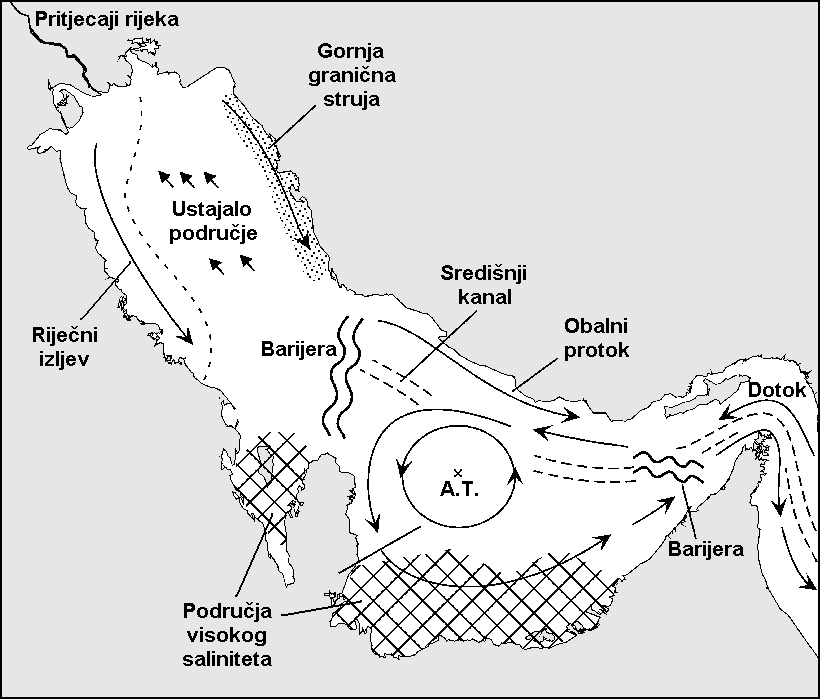 Current sheme of Persian Gulf Srpskohrvatski / српскохрватски: Struje u Perzijskom zaljevu / Струје у Перзијском заљеву